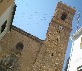 iglesia de calles